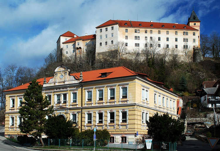 Vimperk Castle and main building of Economy school